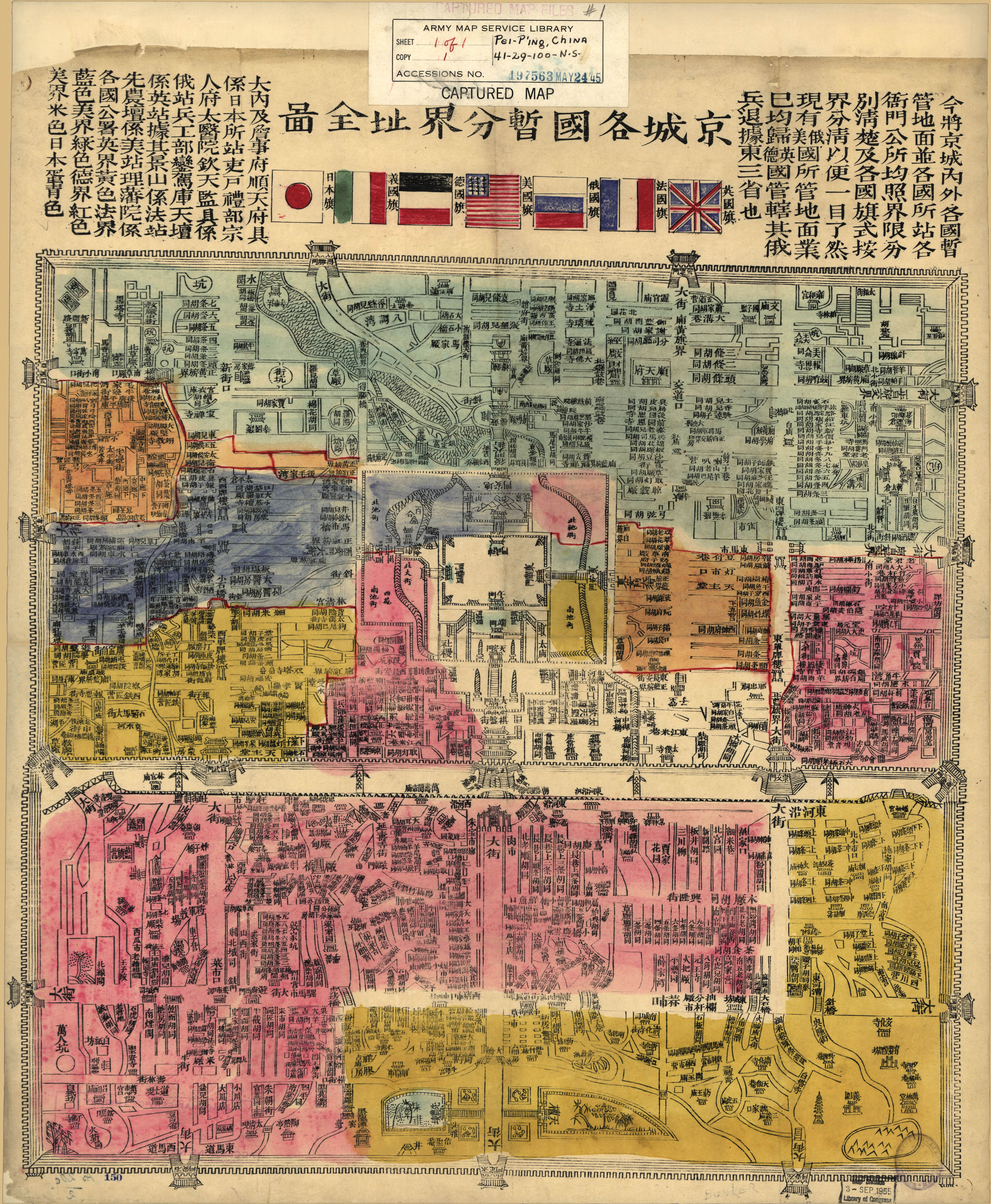 Shown here is the allied occupation of Peking after the Boxer rebellion in 1900. British occupied quarter in yellow. French in blue. U.S. in green and ivory. German in red. Japanese in light green. Scale not given.